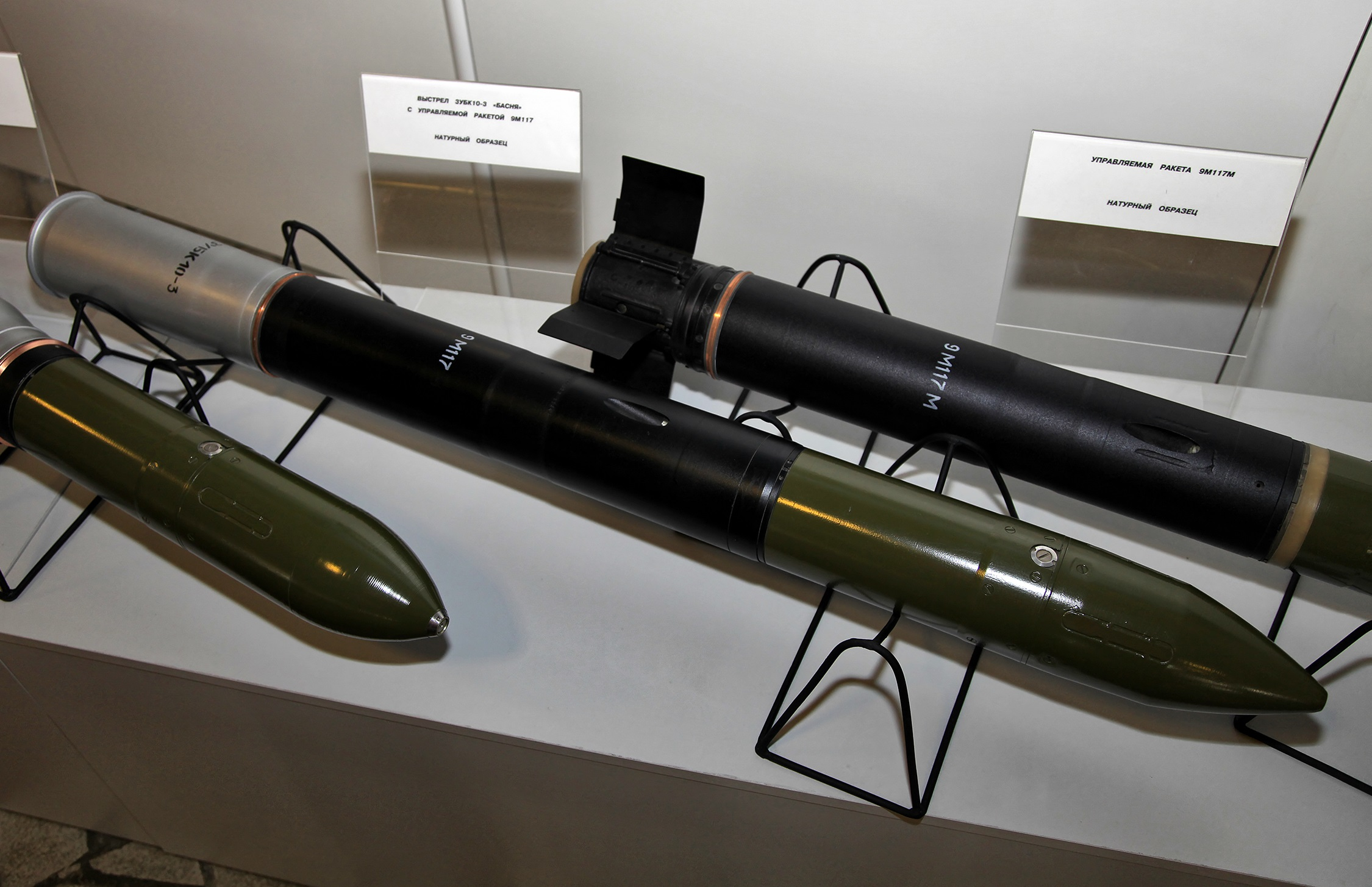 3UBK10-3 with 9M117 ATGM